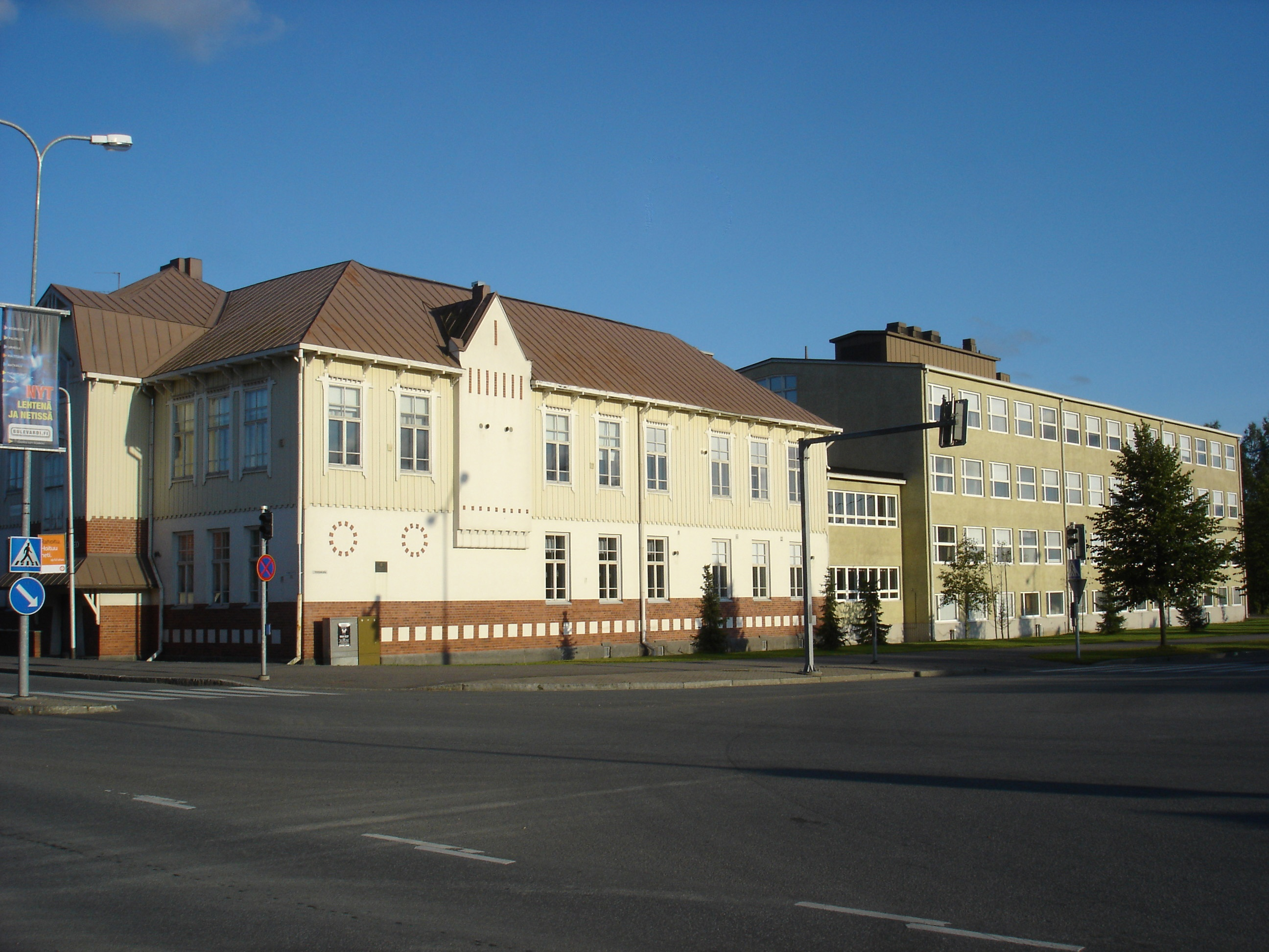 Forssan yhteislyseo high school in Forssa